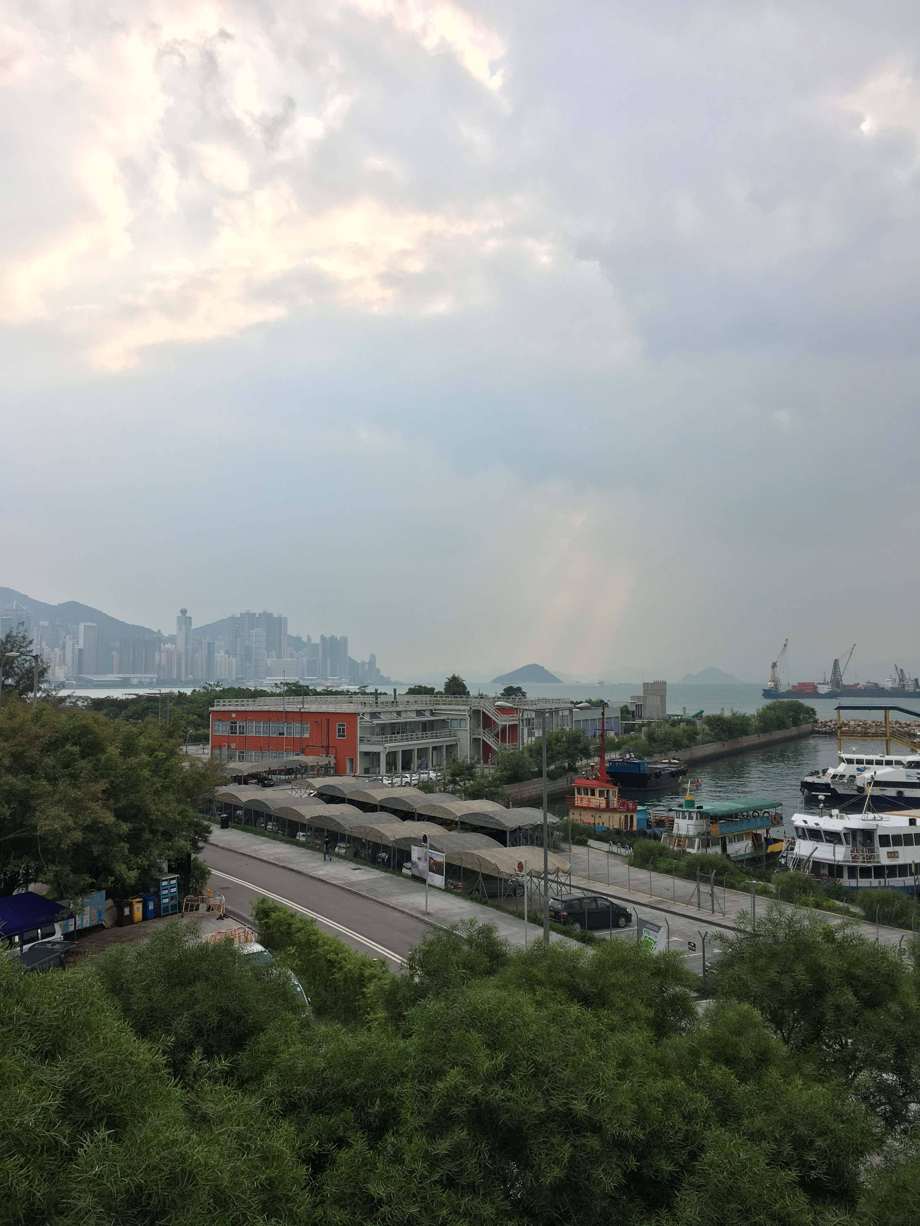 West Kowloon Cultural District Authority Project Site Office